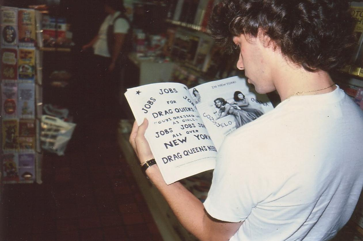 The late Eddie Valdez (died 1986) as lead character "José Maria González" in Wild Side Story reads in (a fictitious) magazine about characters "Consuelo" and "Obvióla" - one of the show's introductory Prologue slide photos setting thre stage for the comedyPlace: Los Angeles International Airport